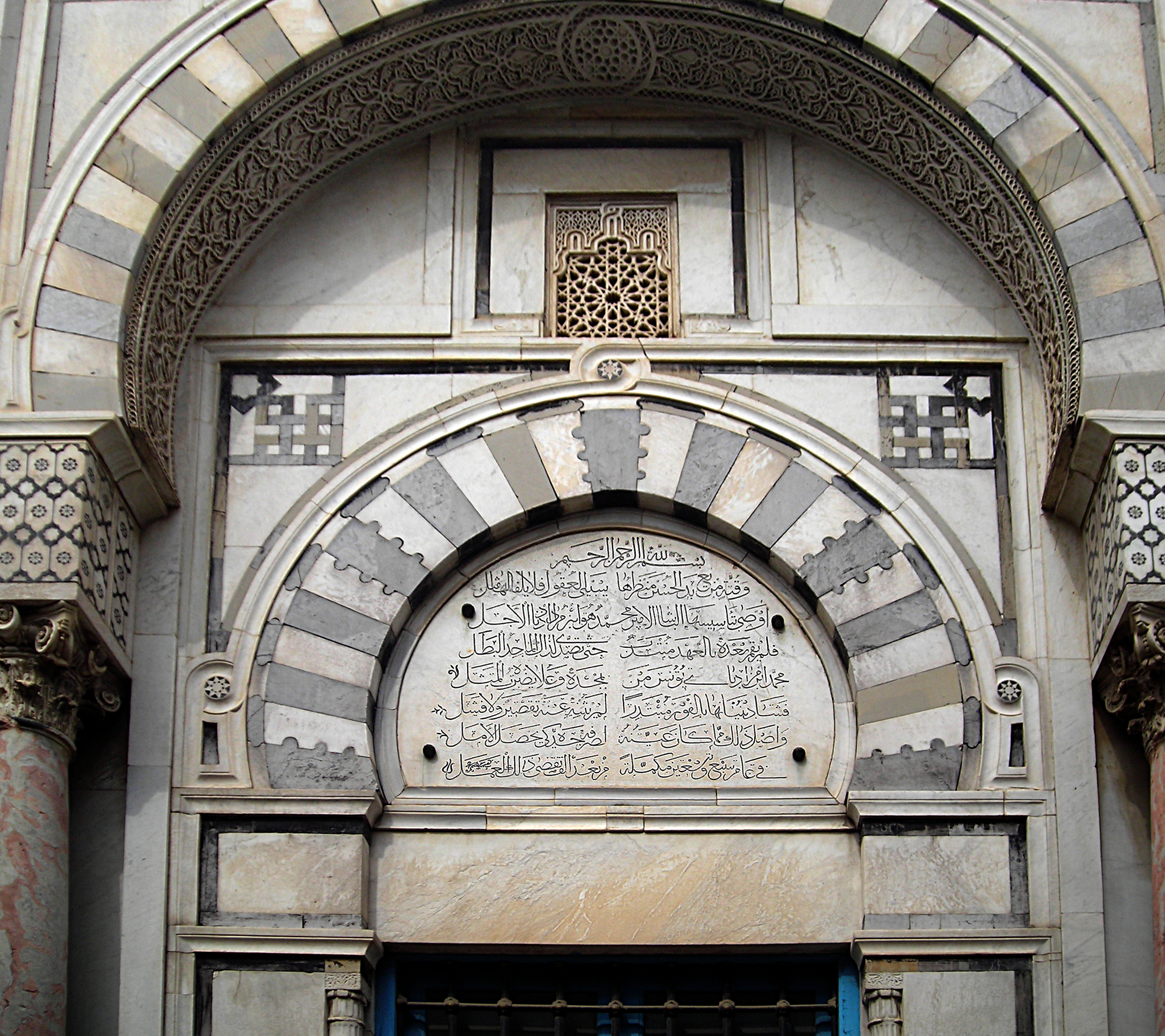 Hamouda Bacha Mosque